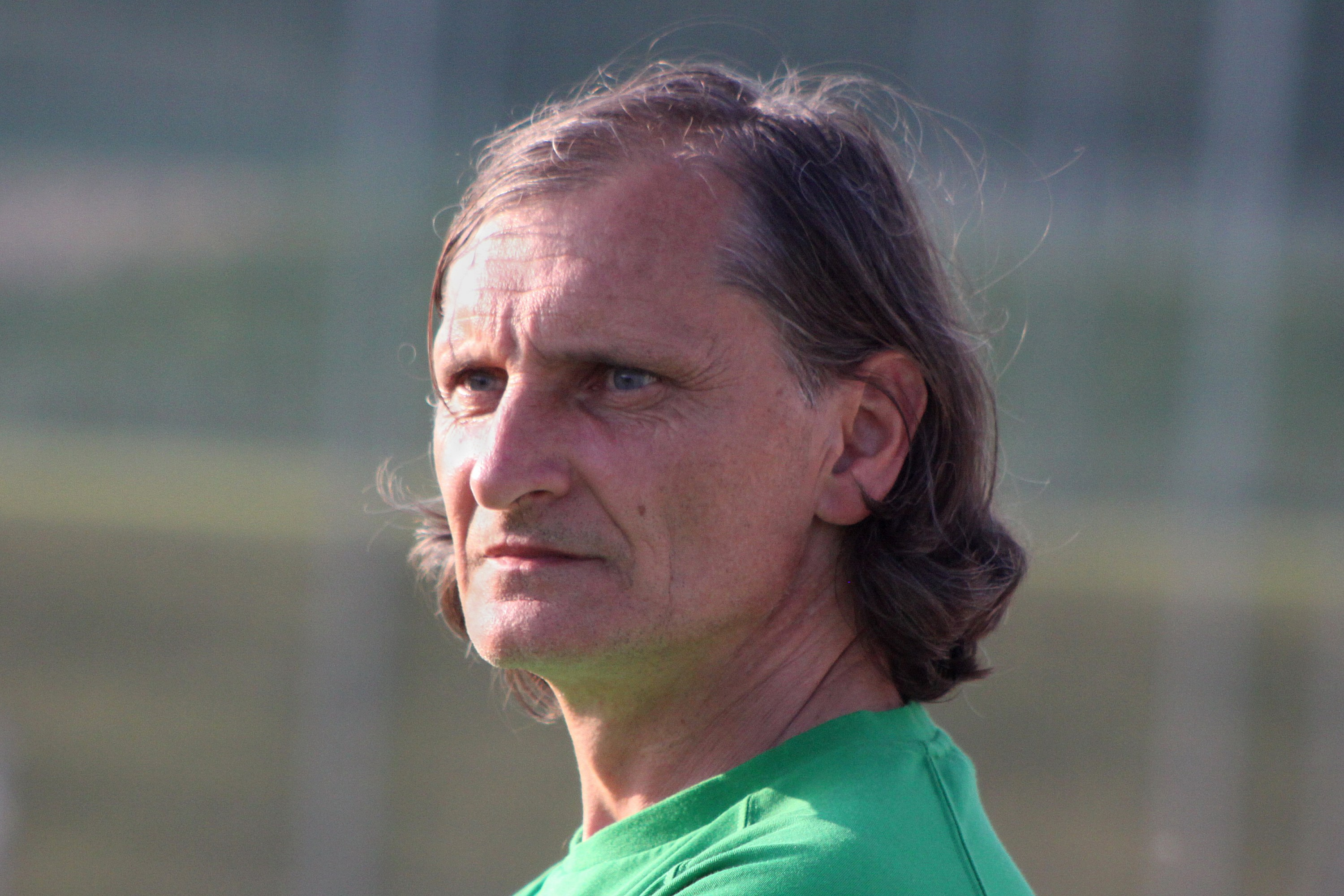 Friendly match SV Mattersburg vs FK Dukla Banská Bystrica (2:2) at 2013-06-21 in Mattersburg. – The photo shows the coach of SV Mattersburg Alfred Tatar.